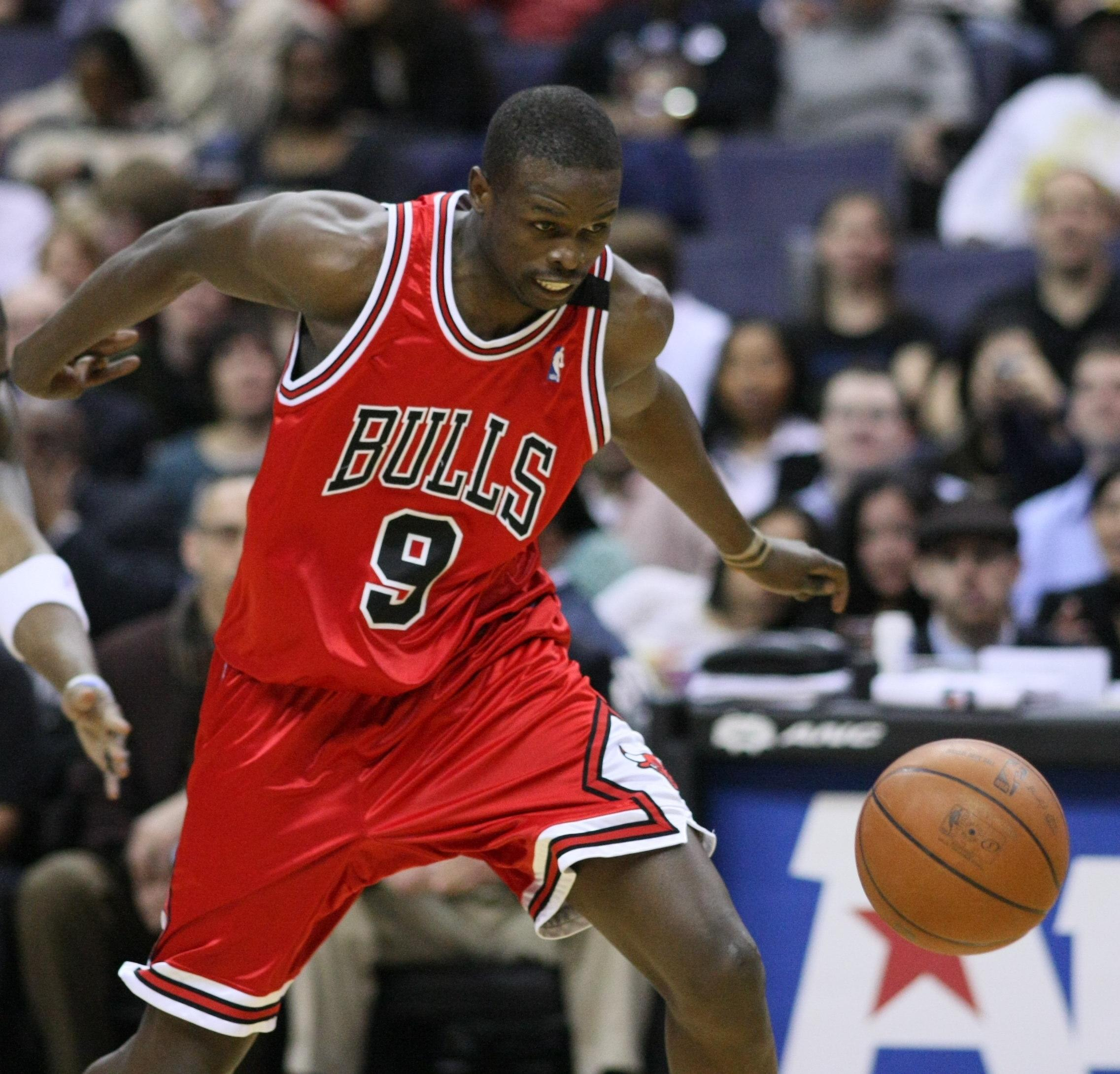 Luol Deng playing with the Chicago Bulls